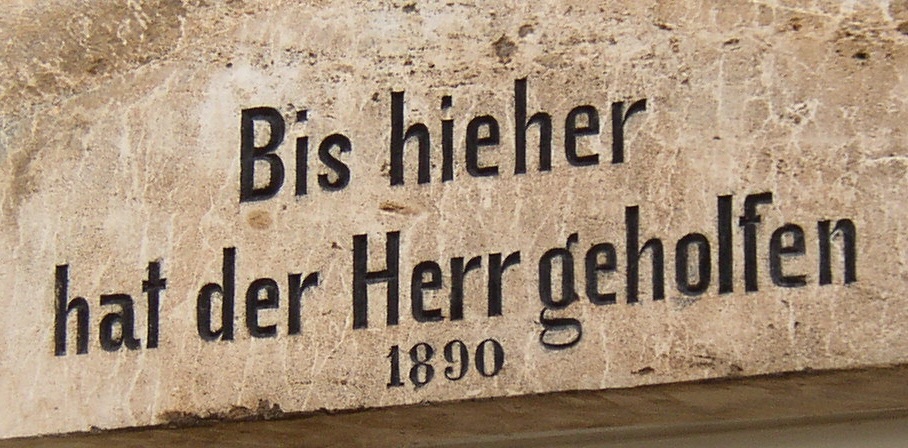 "Thus far the LORD has helped us." 1 samuel 7:12